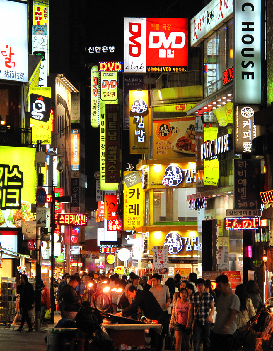 Neon in the Myeongdong district of Seoul, Korea